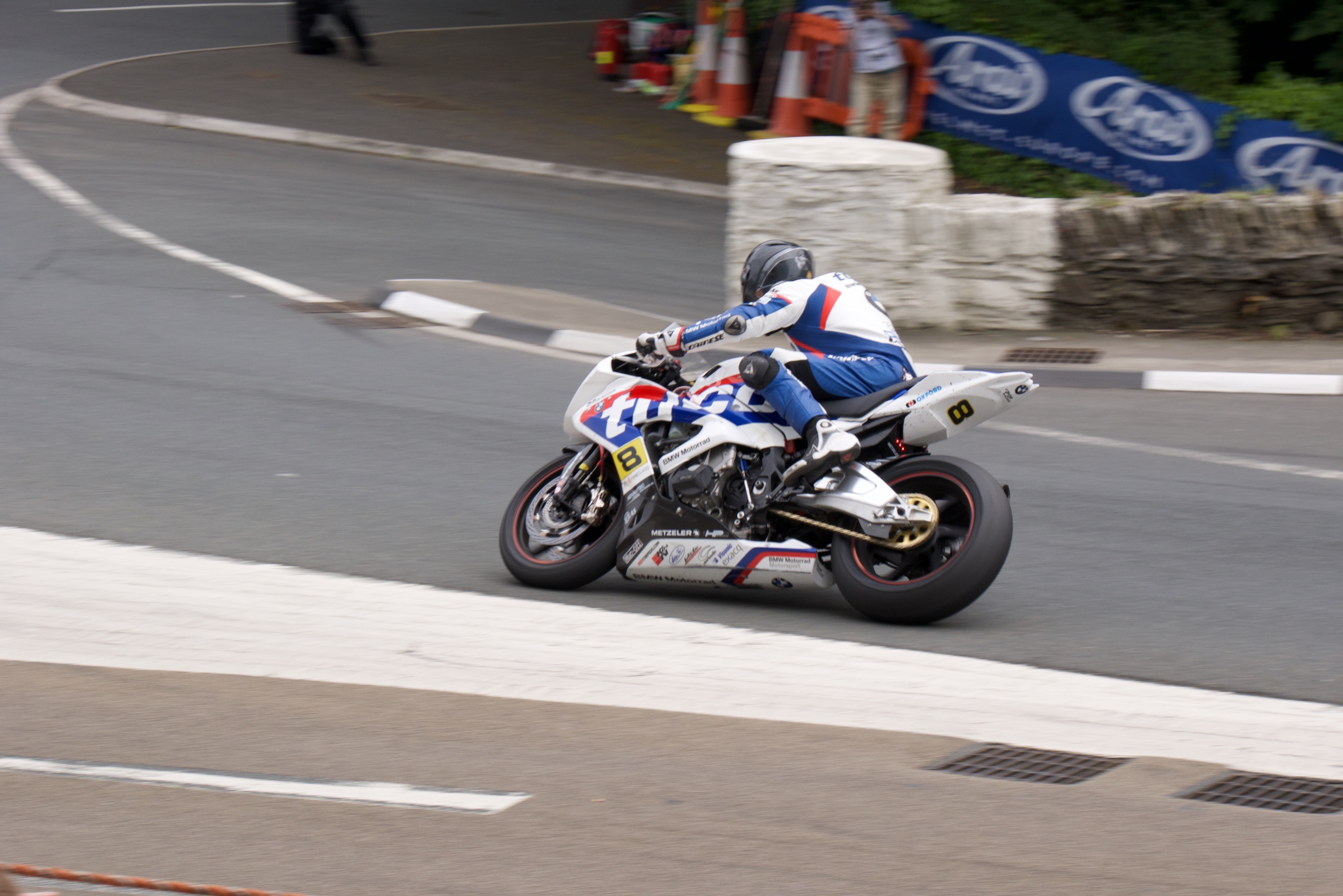 Guy Martin about to enter Governor's Bridge/Governor's Dip from Old Bemahague Road on a Tyco BMW S1000RR in the 2015 Senior TT race